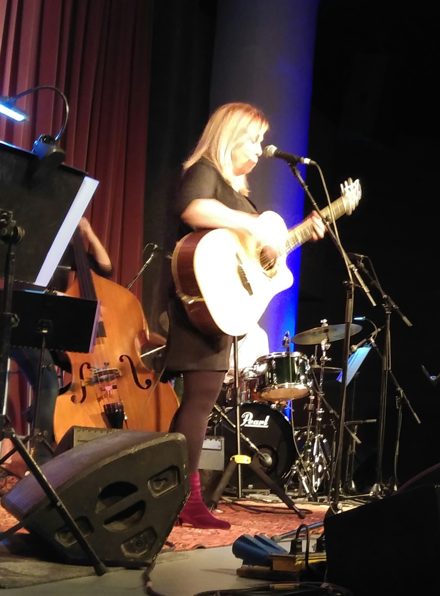 Rickie Lee Jones in Jerusalem Jazz Festival 2016